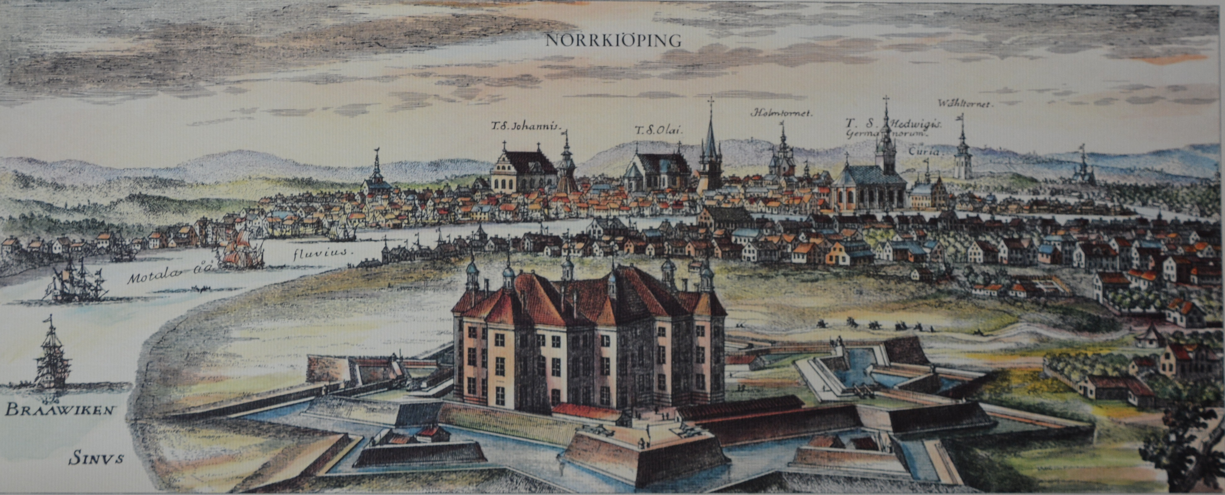 Norrköping, ur Suecia Antiqua et hoderna 1714